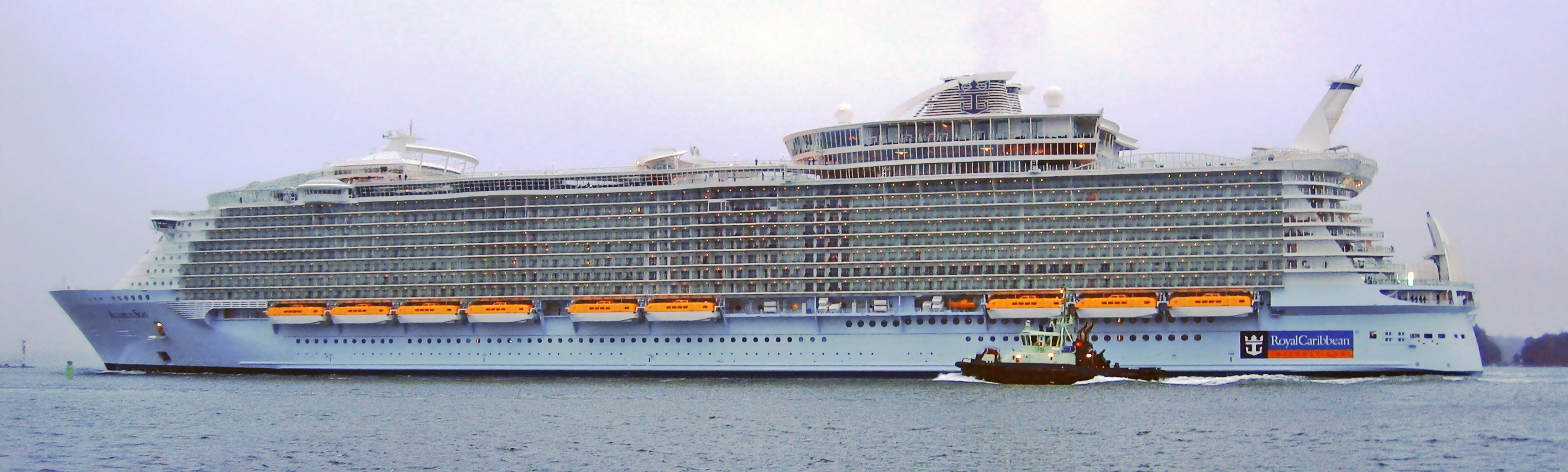 MS Allure of the Seas leaving STX shipyard, Turku, Finland. Photo is taken from Saaronniemi, Ruissalo.